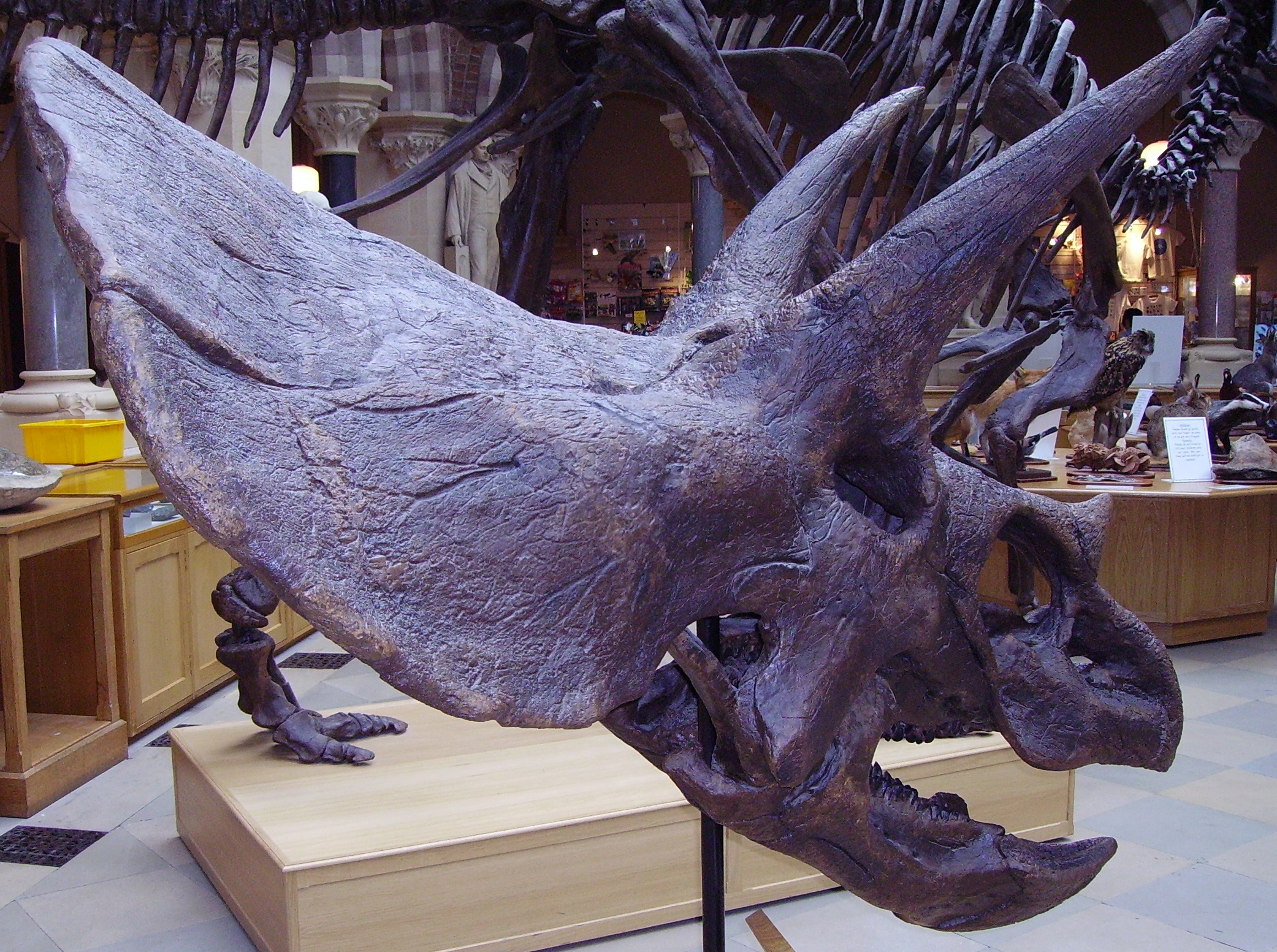 Photographer: User:Ballista